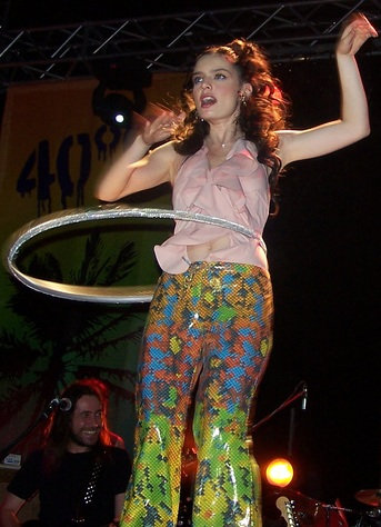 Nil Karaibrahimgil at Erdek.